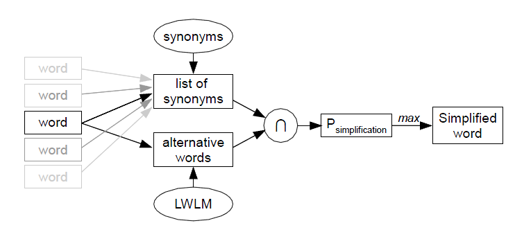 a schematic representation of the method of lexical simplification presented by Jan De Belder, Koen Deschacht